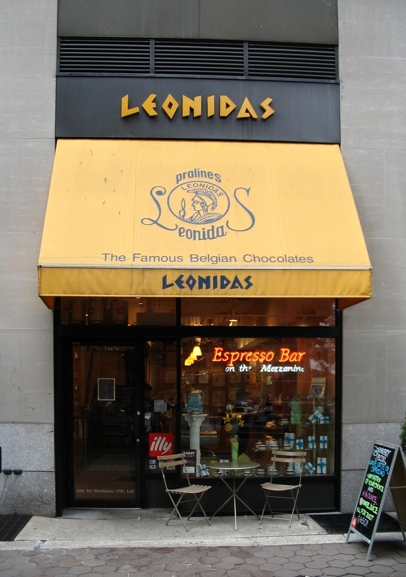 Leonidas shop, NY USA, Downtown Manhattan